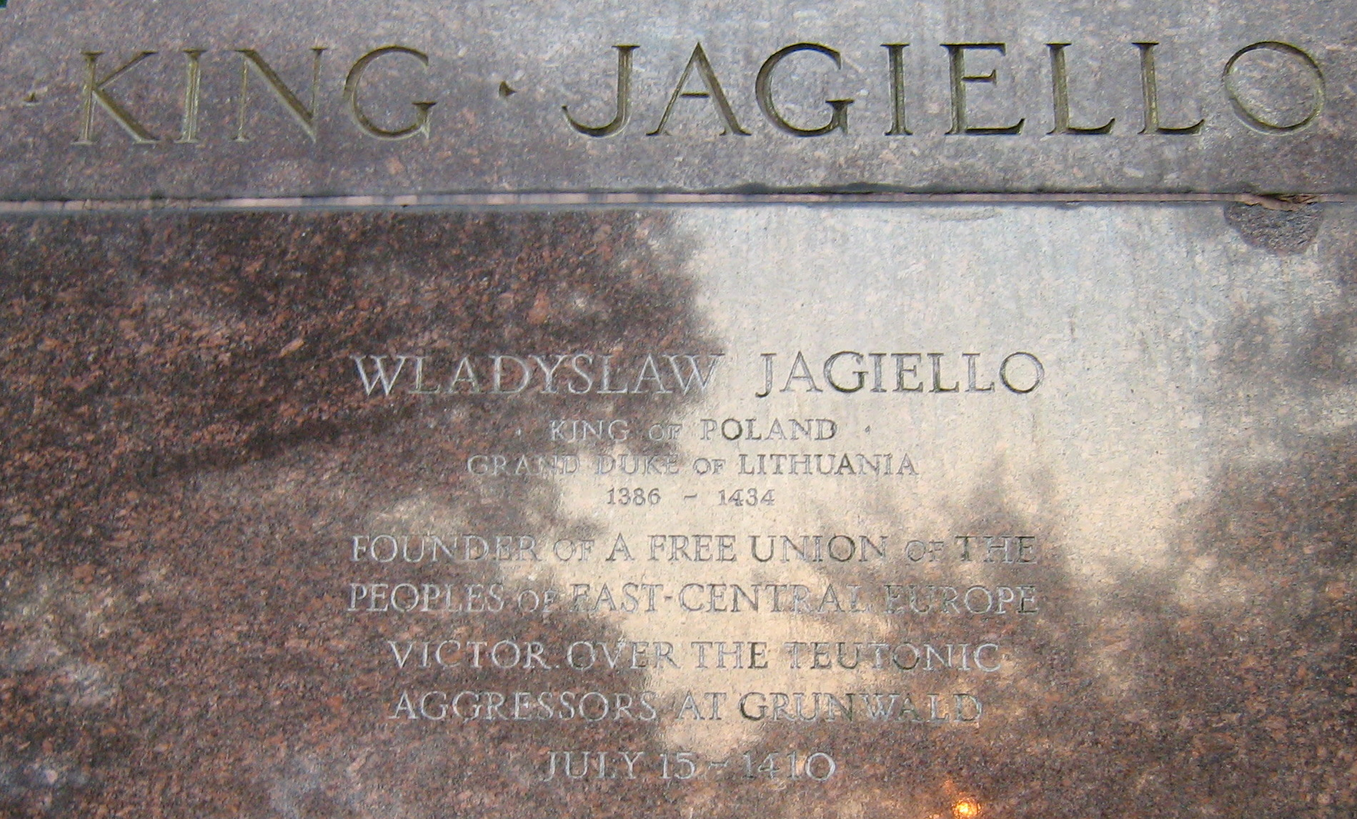 The inscription on the base of the statue of Jogaila (Władysław II Jagiełło) Poland. The King Jagiello Monument located in Central Park New York City, New York, USA.